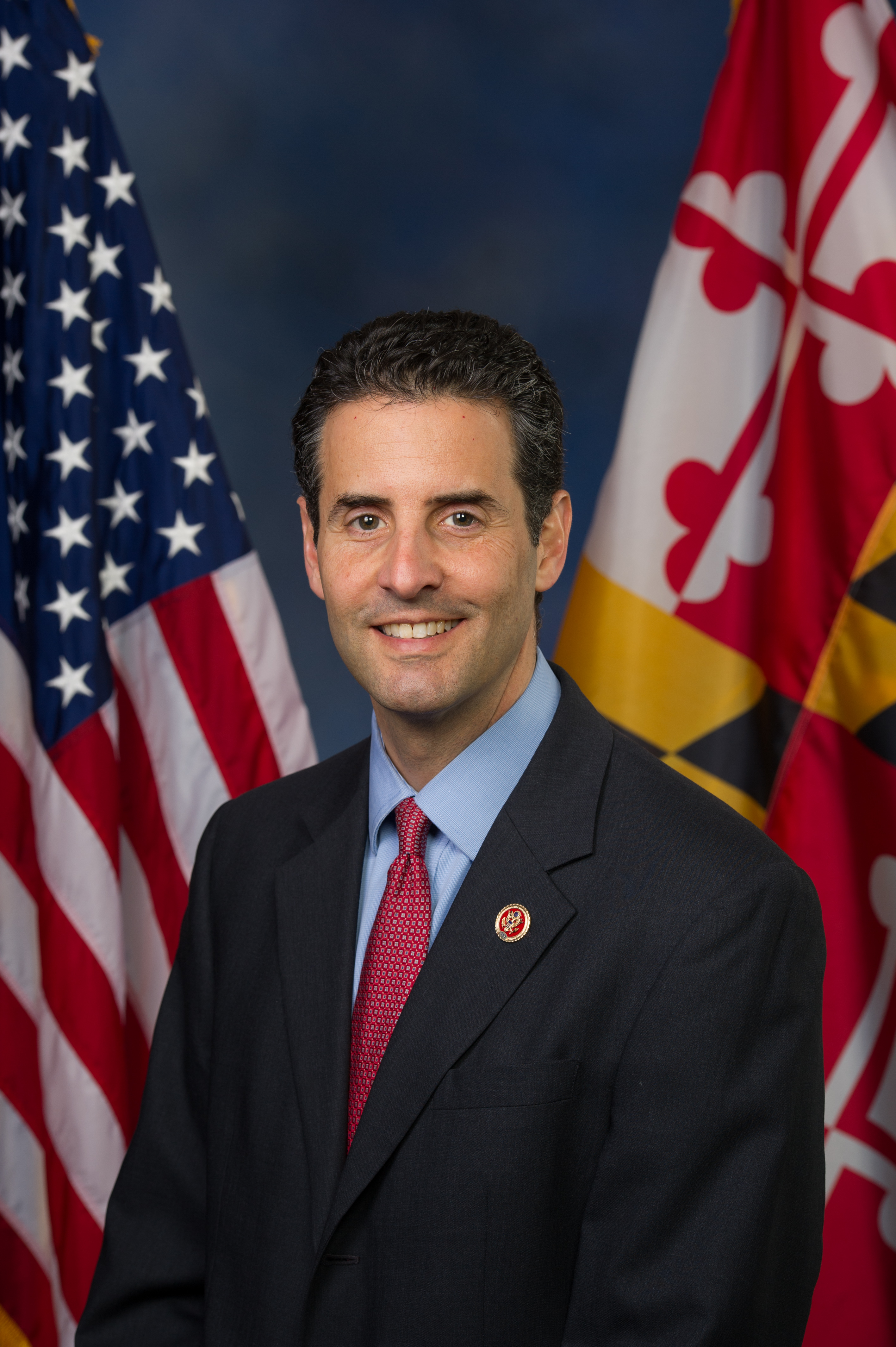 John Sarbanes official photo